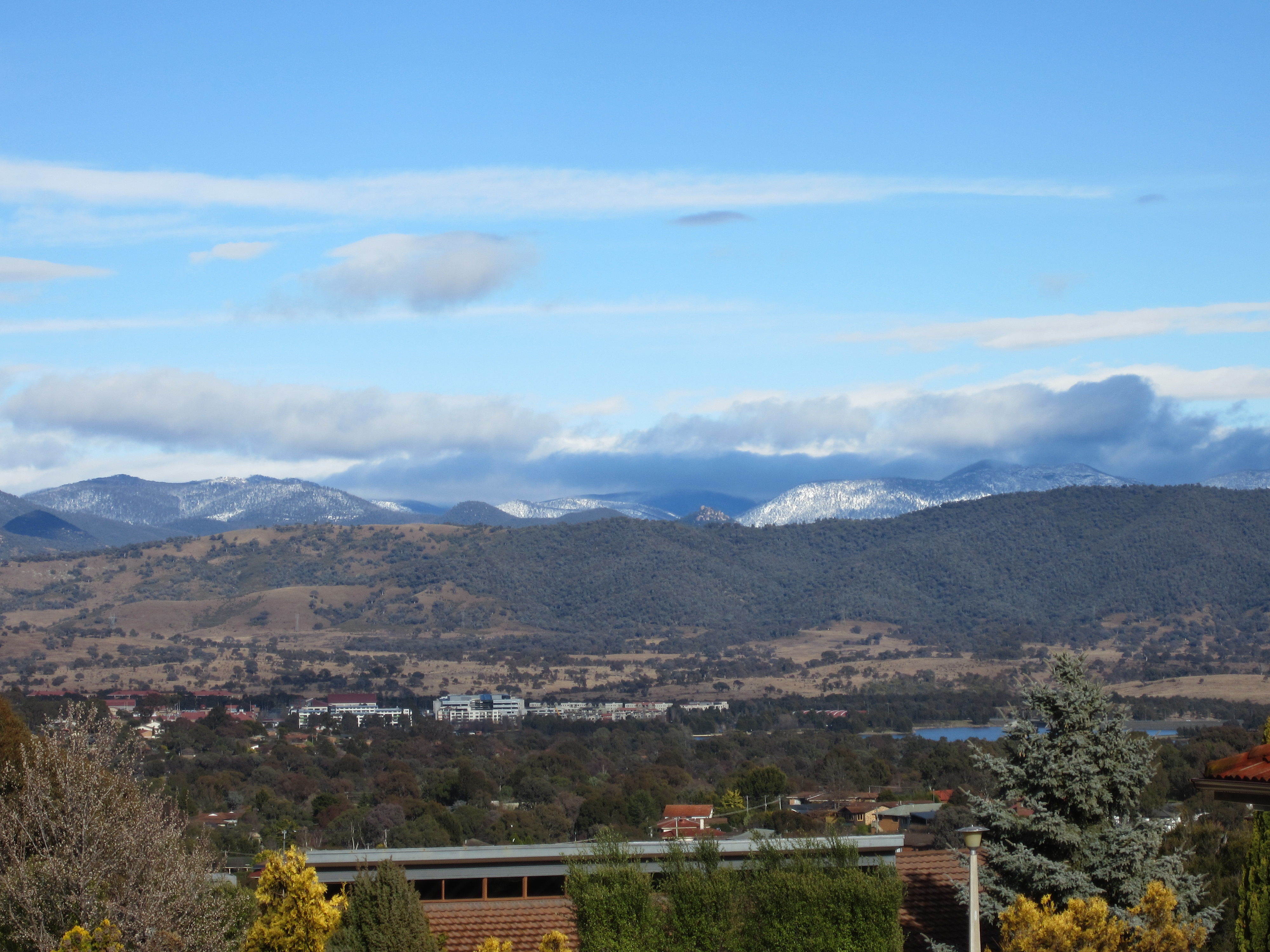 Snow on the Brindabella Ranges behind the Tuggeranong Town Centre in August 2012